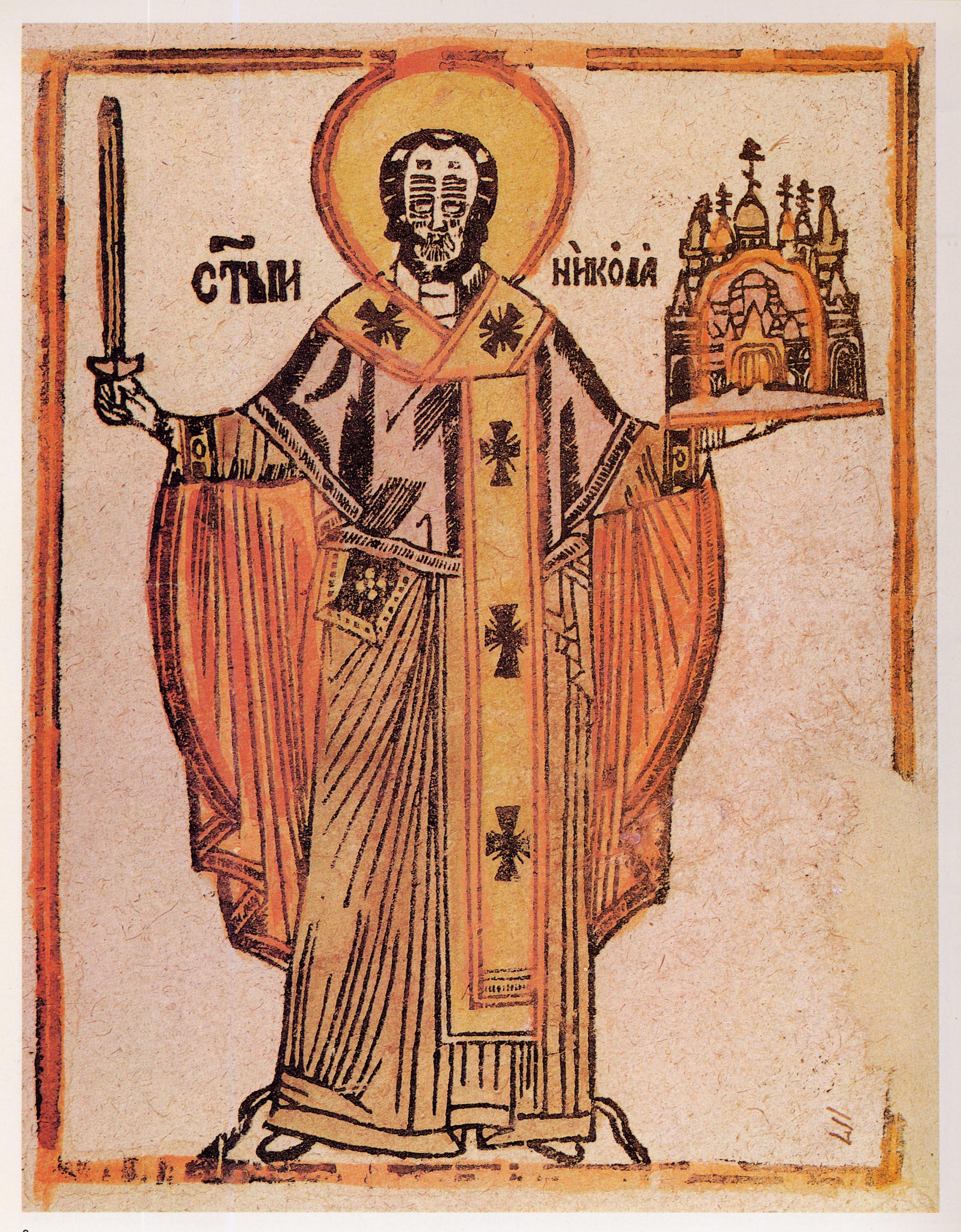 Saint NIcholas icon woodcut (Lubok)